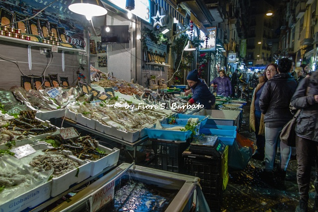 Naples area Pignasecca - The Christmas Eve market